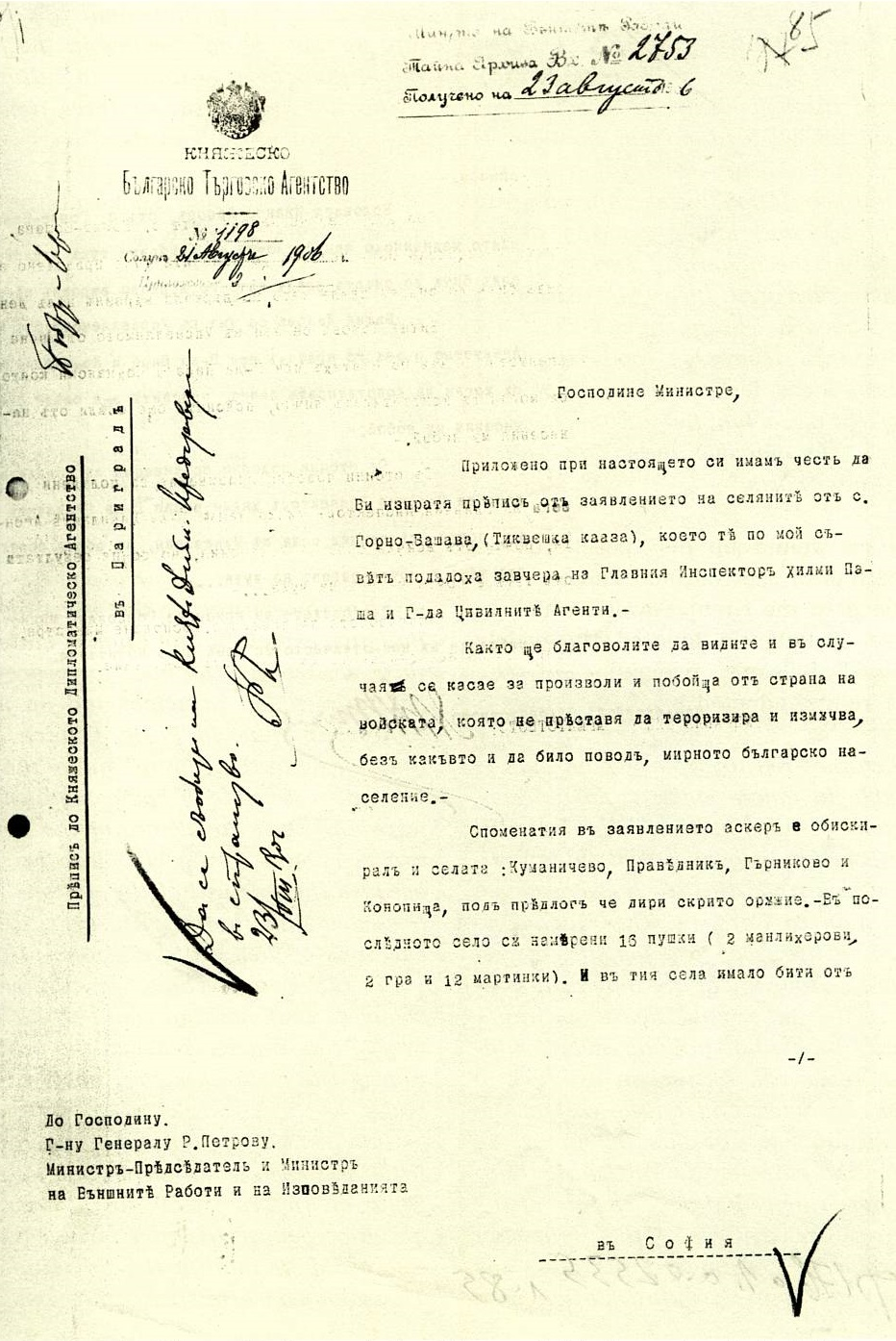 Report from the Bulgarian Trade Agency in Thessaloniki.